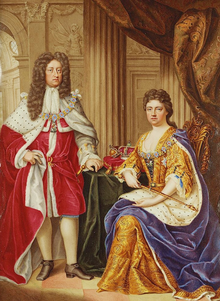 Portrait of Queen Anne of Great Britain and her consort Prince George of Denmark